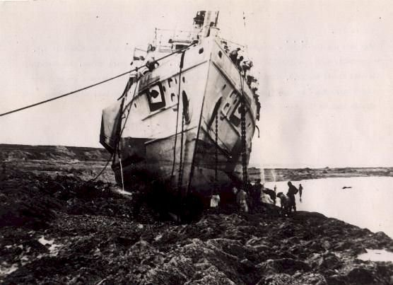 The U.S. Navy submarine rescue ship USS Pigeon (ASR-6) high and dry, after she ran aground during a typhoon at Tsingtao (Qingdao), China, September 1939.